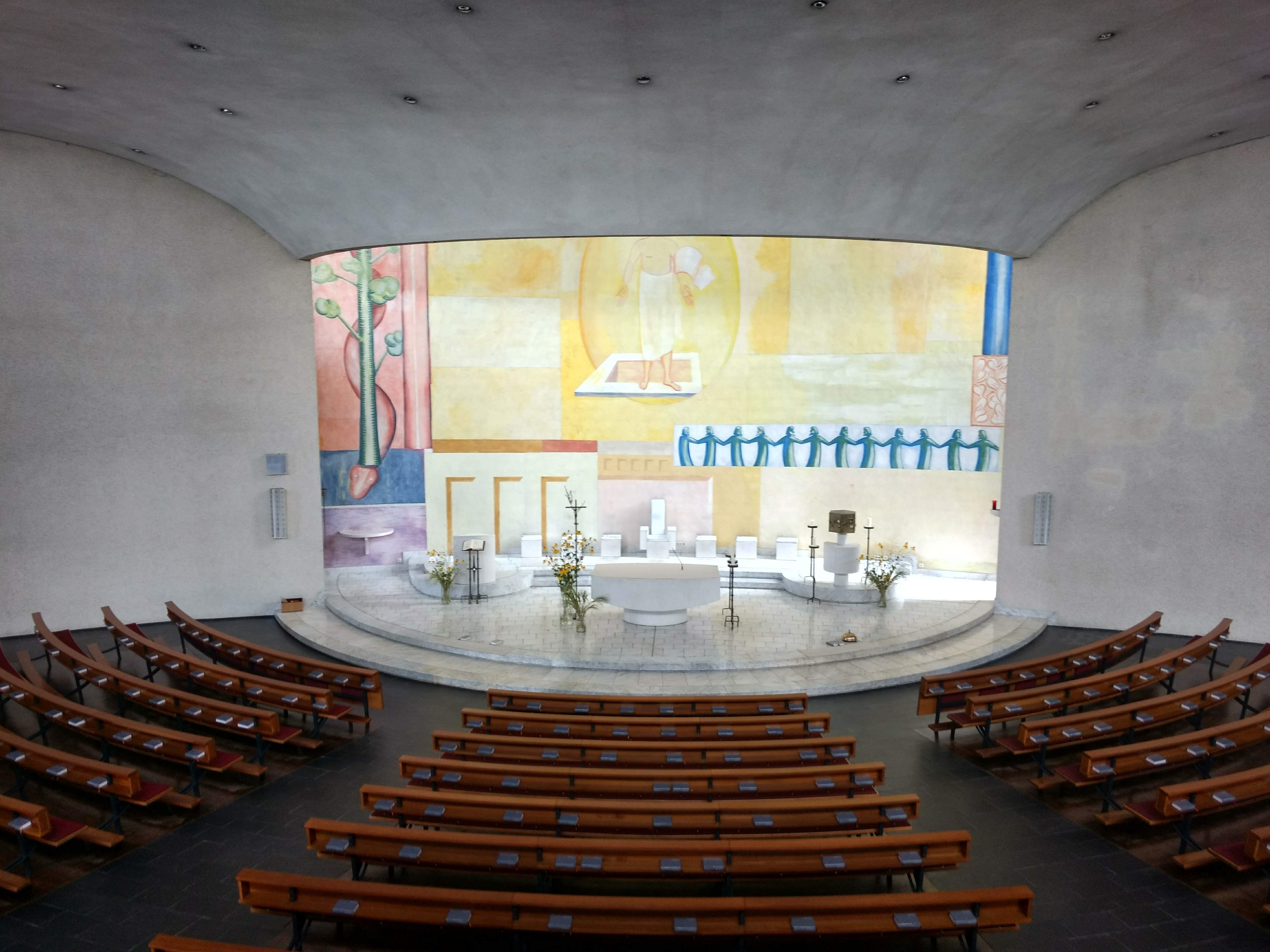 catholic parish church Saint Claus von der Fühe - Interior